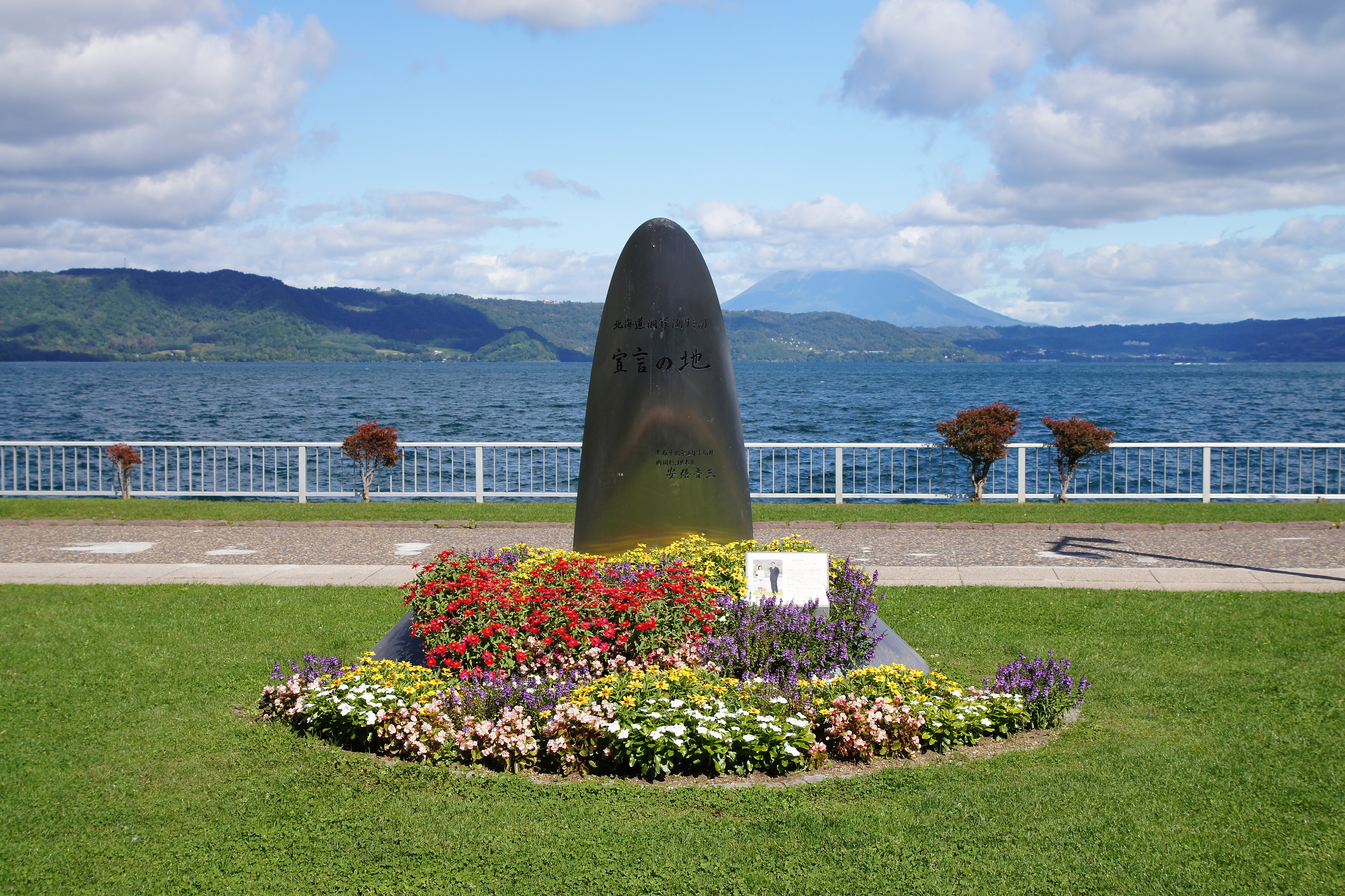 On the lakeside in Lake Tōya, Toyako, Hokkaido prefecture, Japan.